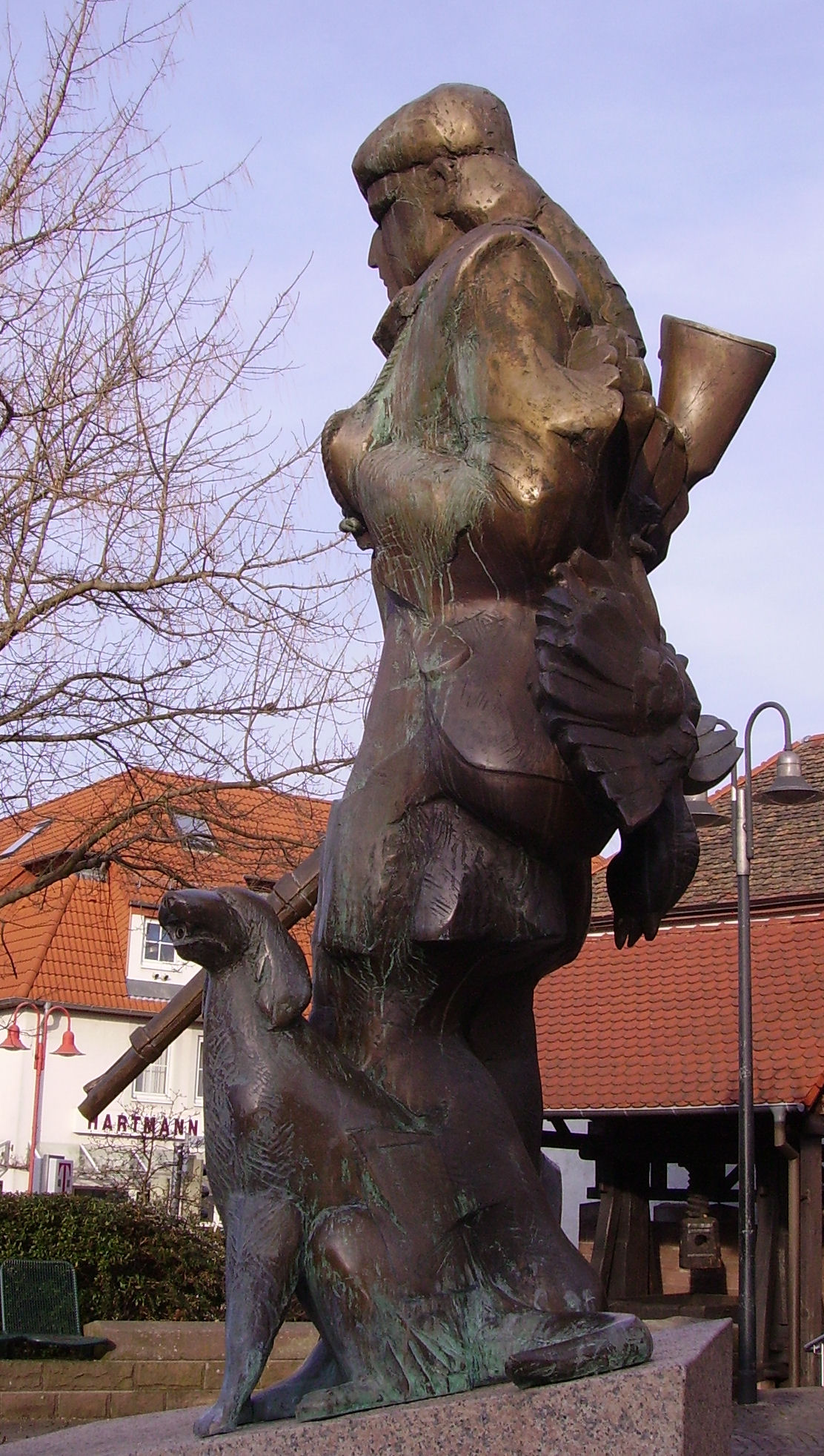 fountain in Edenkoben in Rhineland-Palatinate, Germany